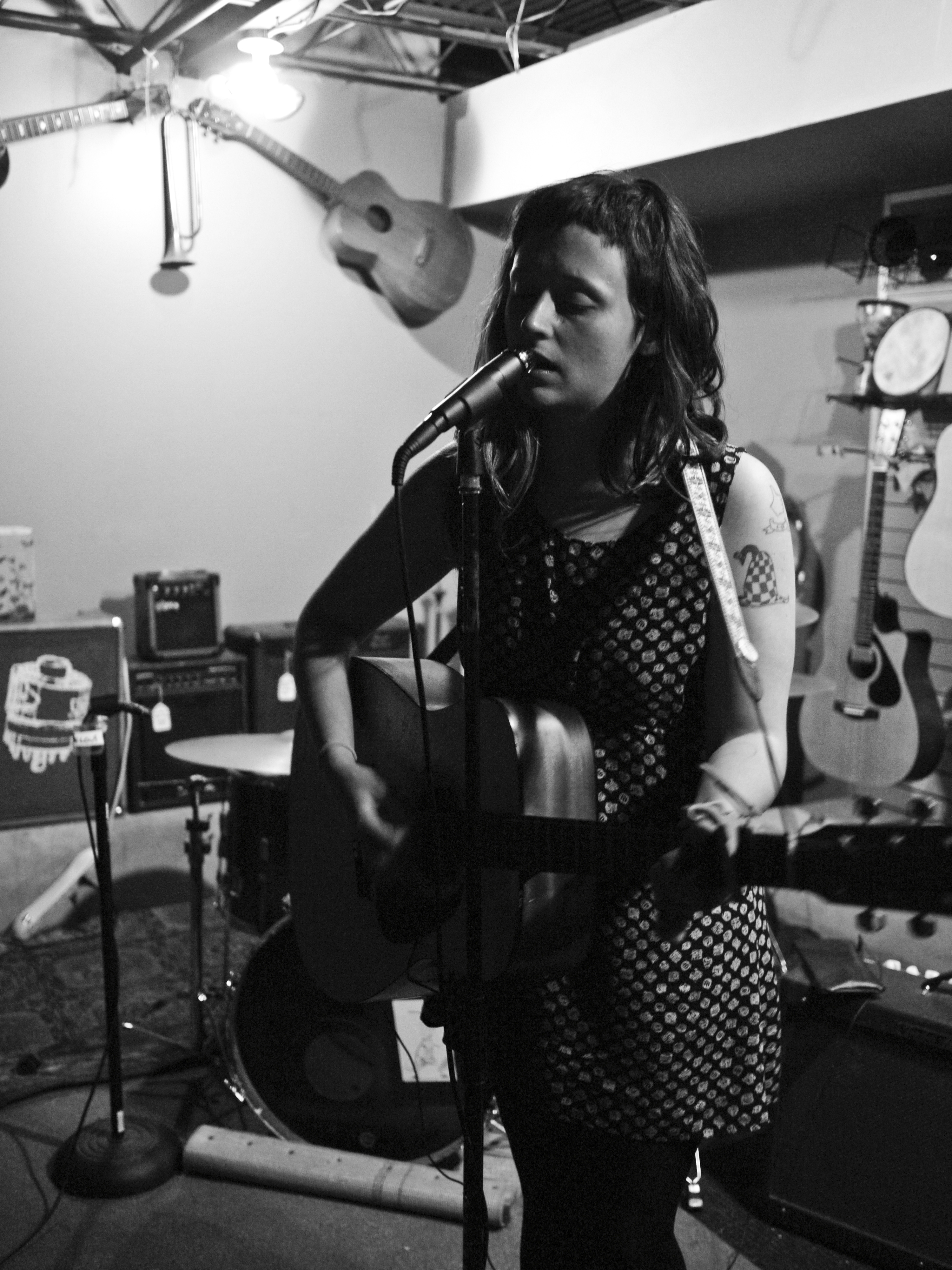 Waxahatchee performing in 2012